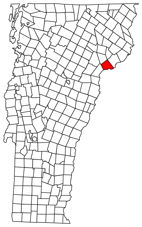 Map of Vermont towns with Waterford highlighted